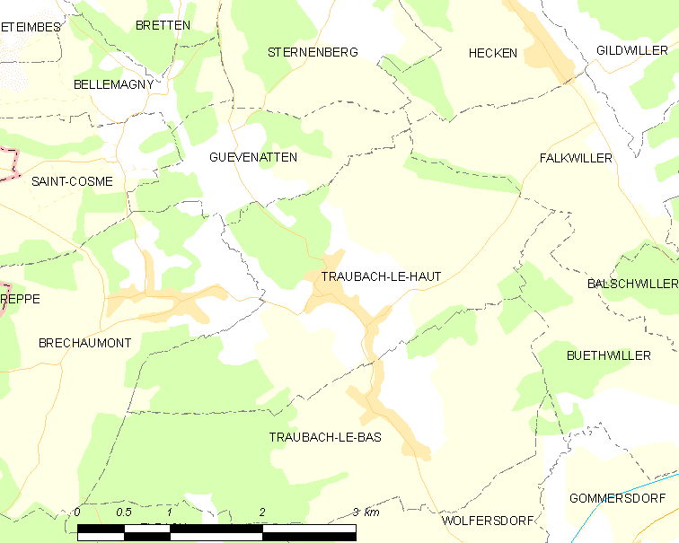 Map of French municipality